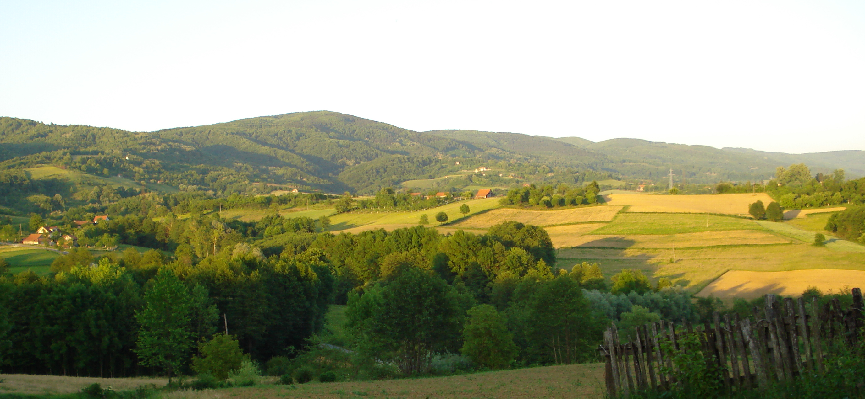 Village Palanciste, on mountain Kozara, RS, BiH, and peak Maslin Bair (691 m)